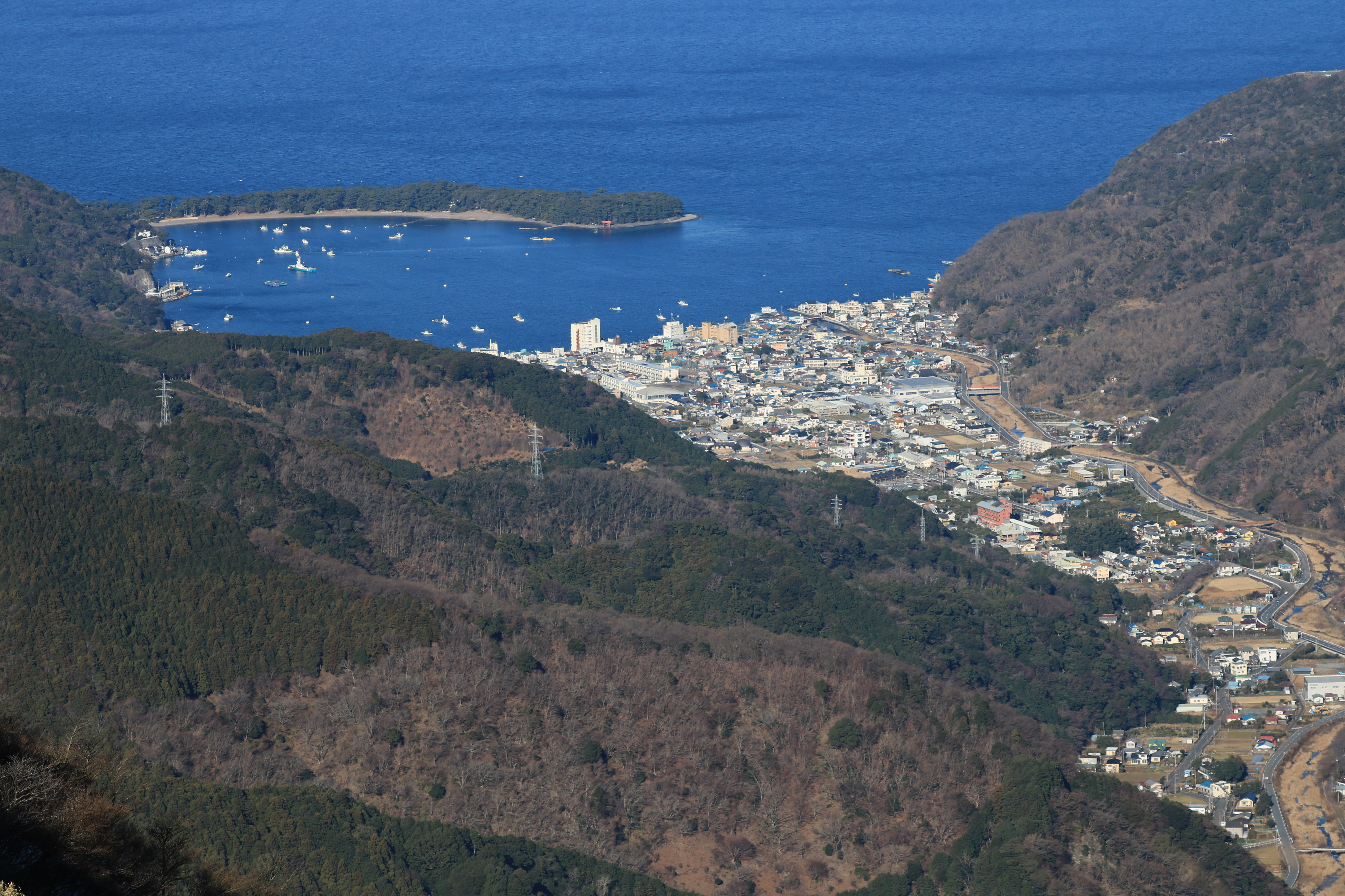 Cape Mihama and Port of Heda seen from Nishiizu Skyline in Numazu, Shizuoka prefecture, Japan. Canon EOS Kiss X8i